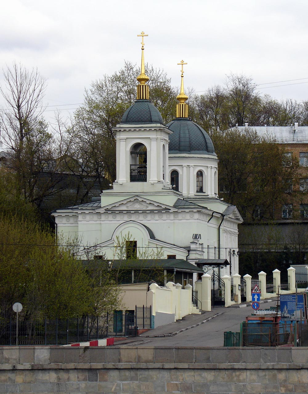 Church of St. Nicholas in Kotelniki, Moscow, Russia by Joseph Bove